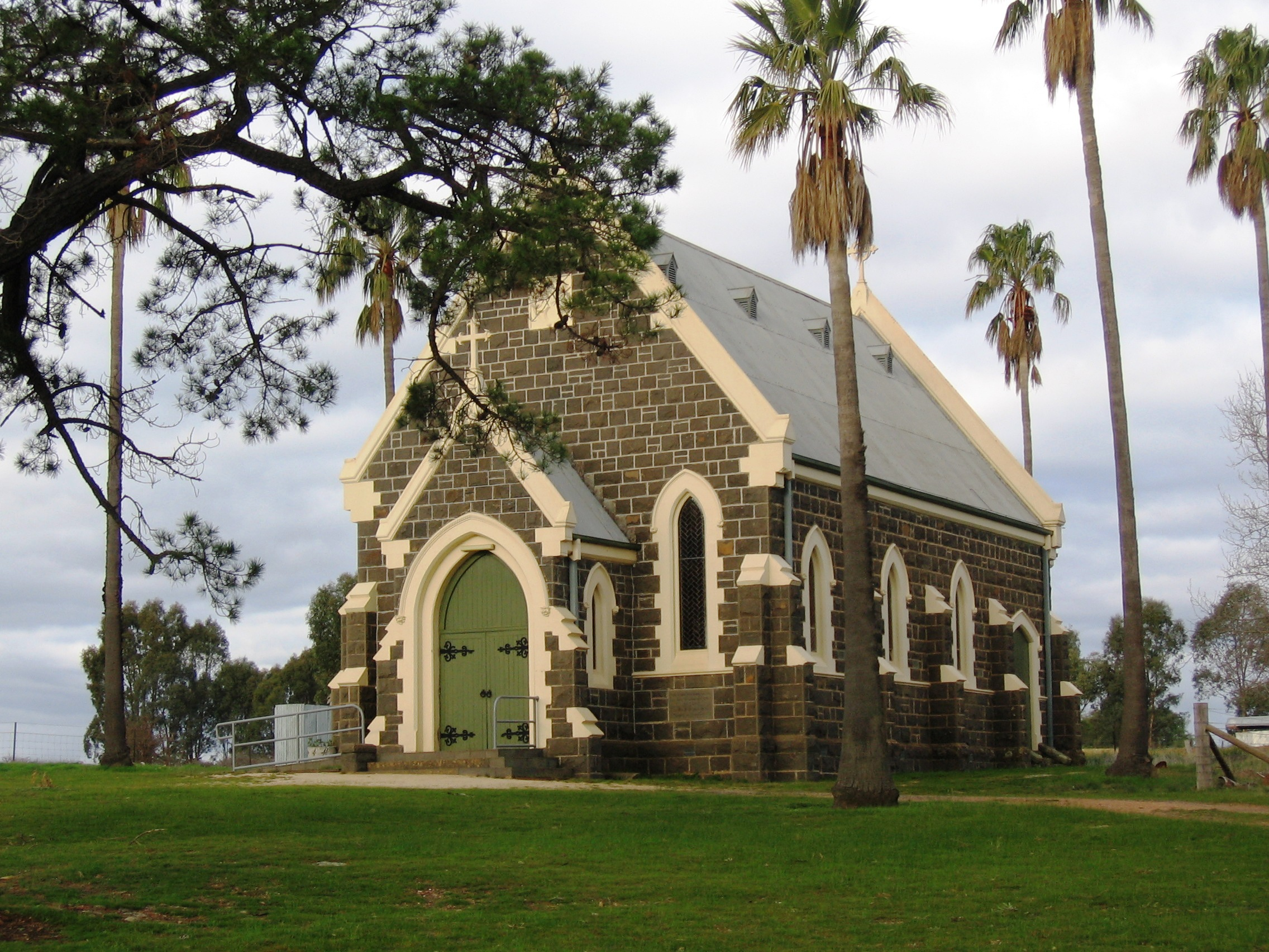 St Mary's Roman Catholic church at Axedale, Victoria